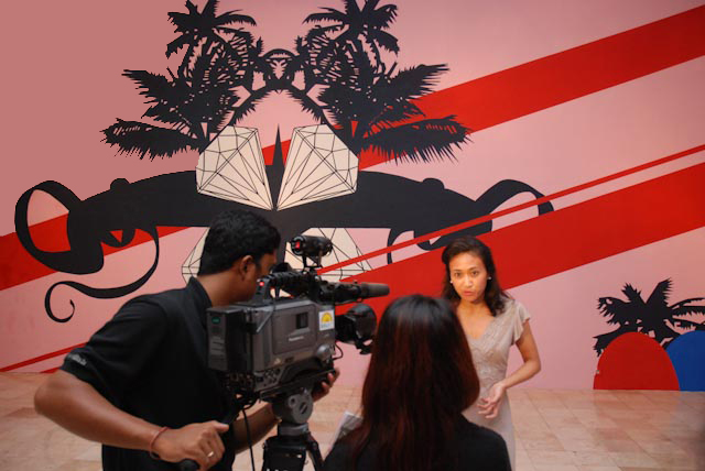 Sinta Tantra is interviewed on Bali TV in front of Arsenic Fantasy, 2009